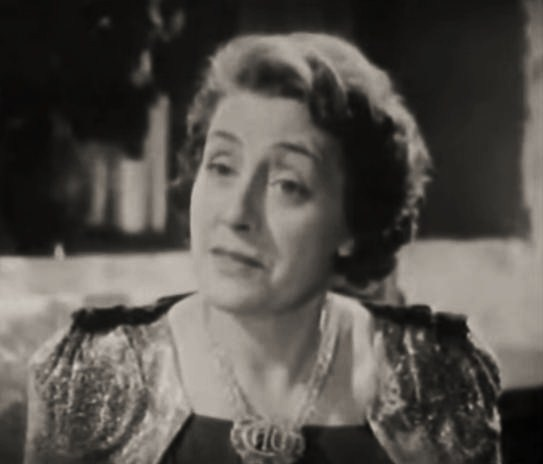 Ann Codee in Drums of the Desert - cropped screenshot